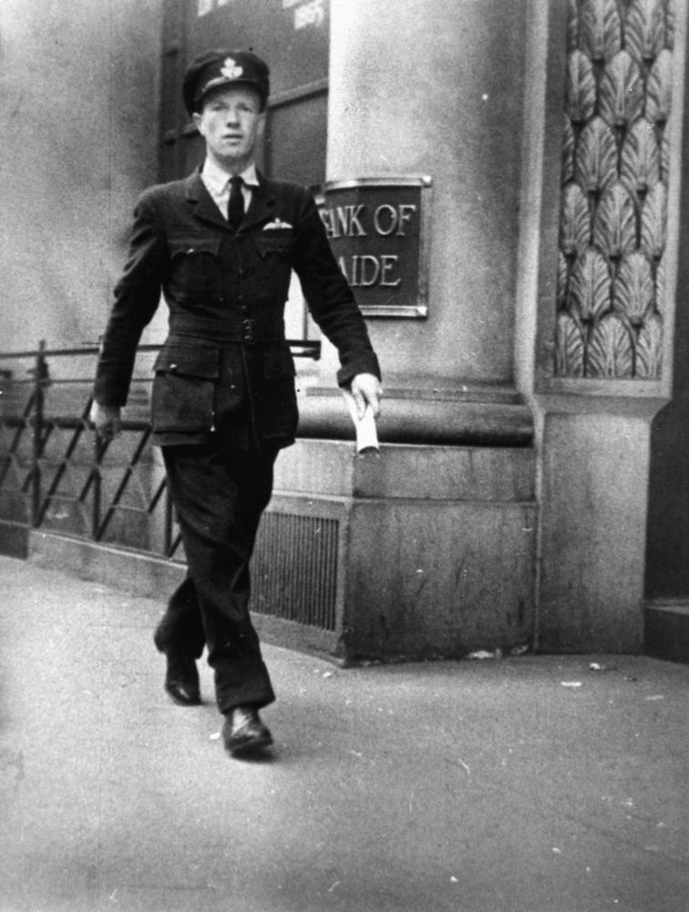 Cartoonist Jack Lusby in his RAAF Air Force uniform, ca. 1944 Viv (Jack) Lusby, was born in Ballina, New South Wales in 1913 and died in Sydney in 1981, was an Australian cartoonist and short story writer who spent most of his working life in Sydney, producing cartoons and short stories for publications such as Smith's Weekly and the Sydney Morning Herald. He worked in Brisbane for the Courier Mail from 1945 till 1947. He used the pseudonym of Freddie for some of his cartoons and stories. He has had short stories published in Coast to Coast, the Penguin book of Australian Short Stories, volume 2, and various other publications. Jack served as an RAAF pilot in the Middle East during World War II. (Description supplied with photograph).